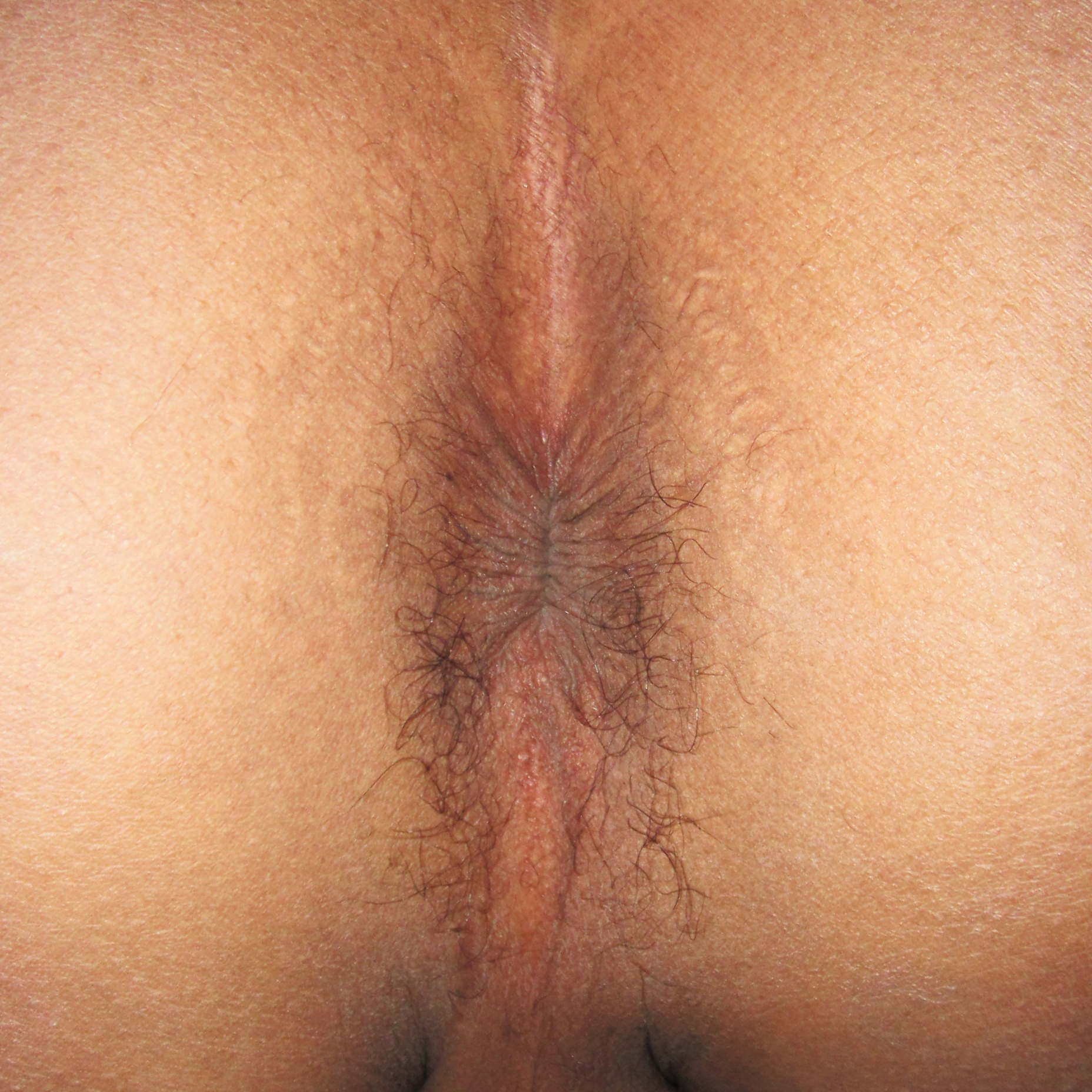 The anus of a male human.